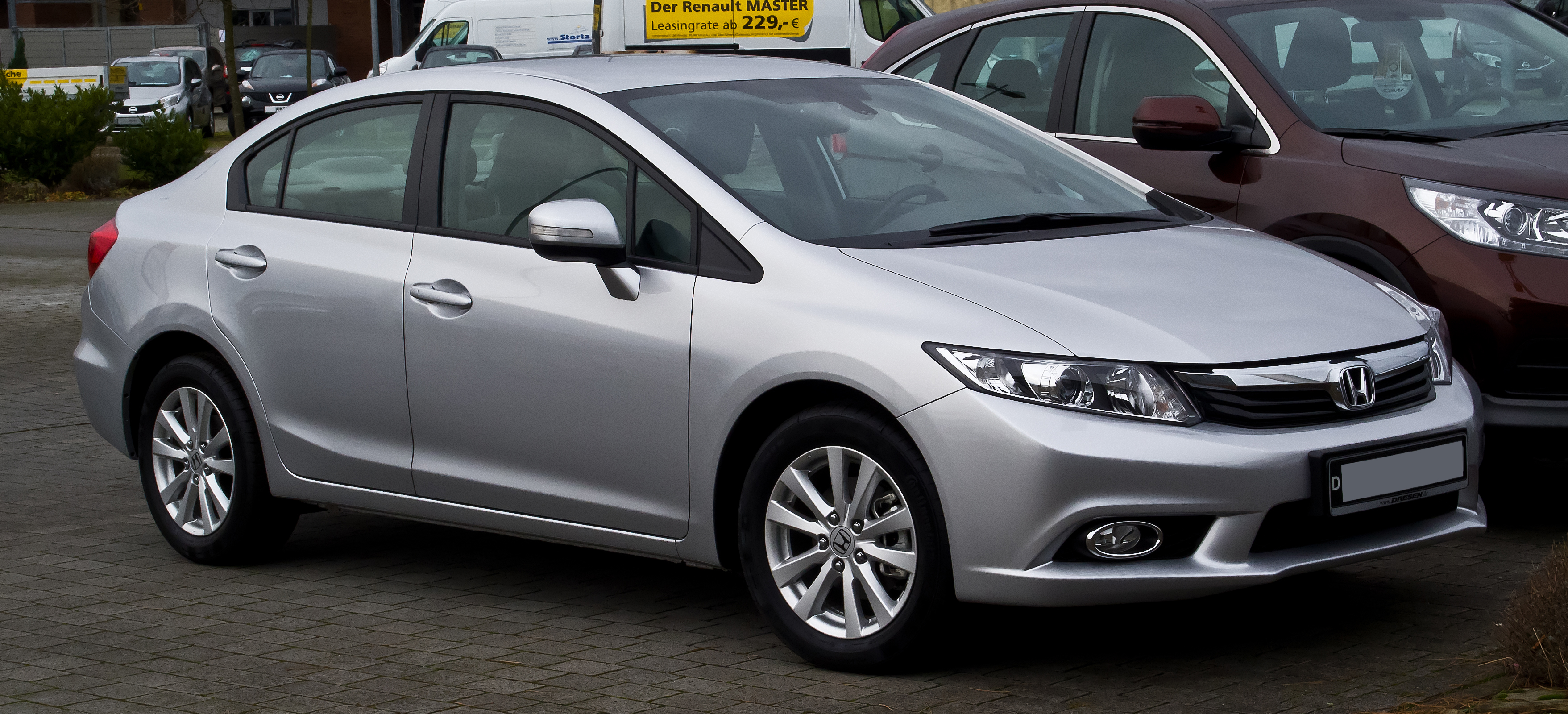 Honda Civic Stufenheck 1.8 i-VTEC Comfort (IX)